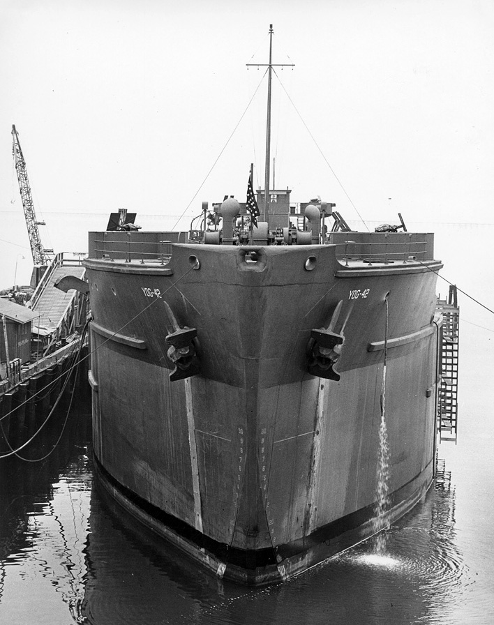 Probably shown in commission in late May 1943. Her massive draft is fully evident in this view.